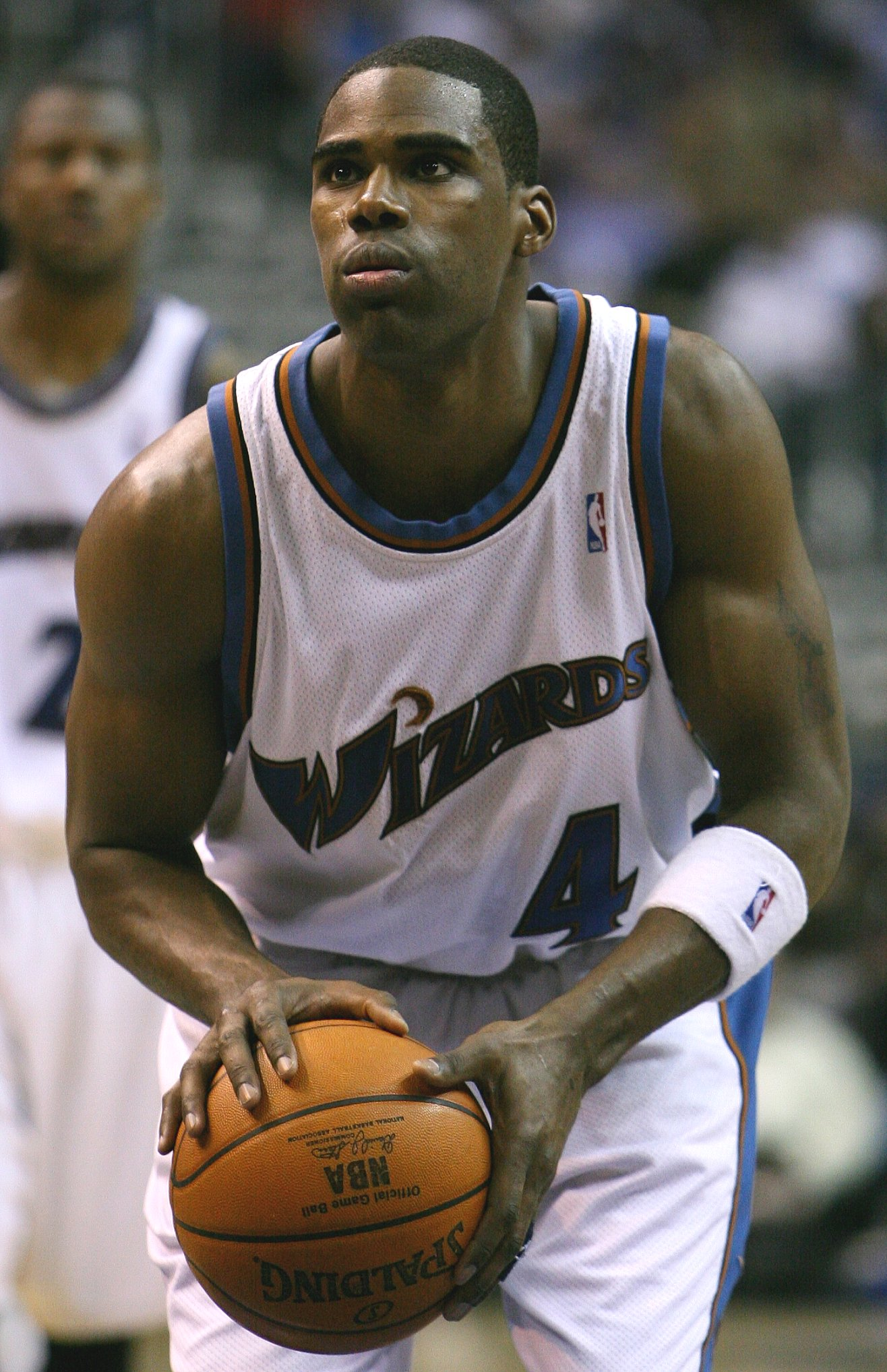 Antawn Jamison with the Washington Wizards, April 2007.